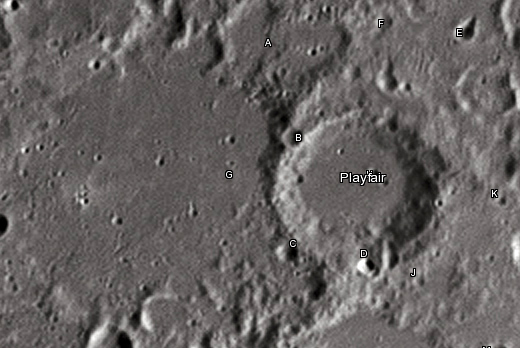 Playfair lunar crater as seen from Earth with satellite craters labeled